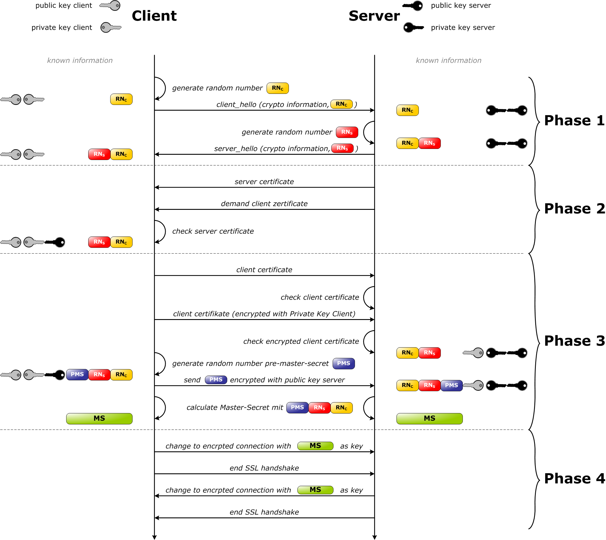 Schematic representation of the SSL handshake protocol with two way authentication with certificates.